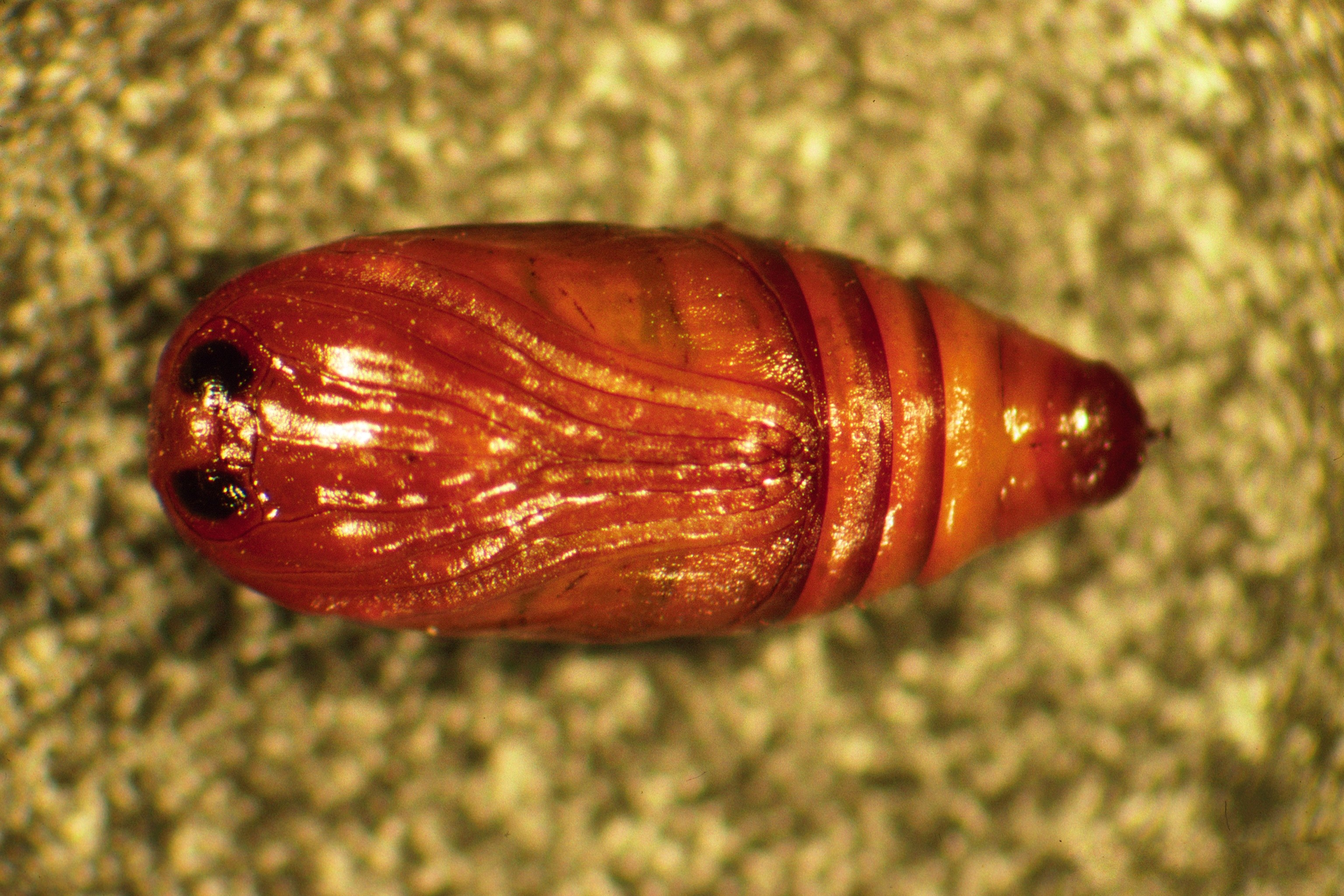 Operophtera brumata pupa in Saxony, Germany